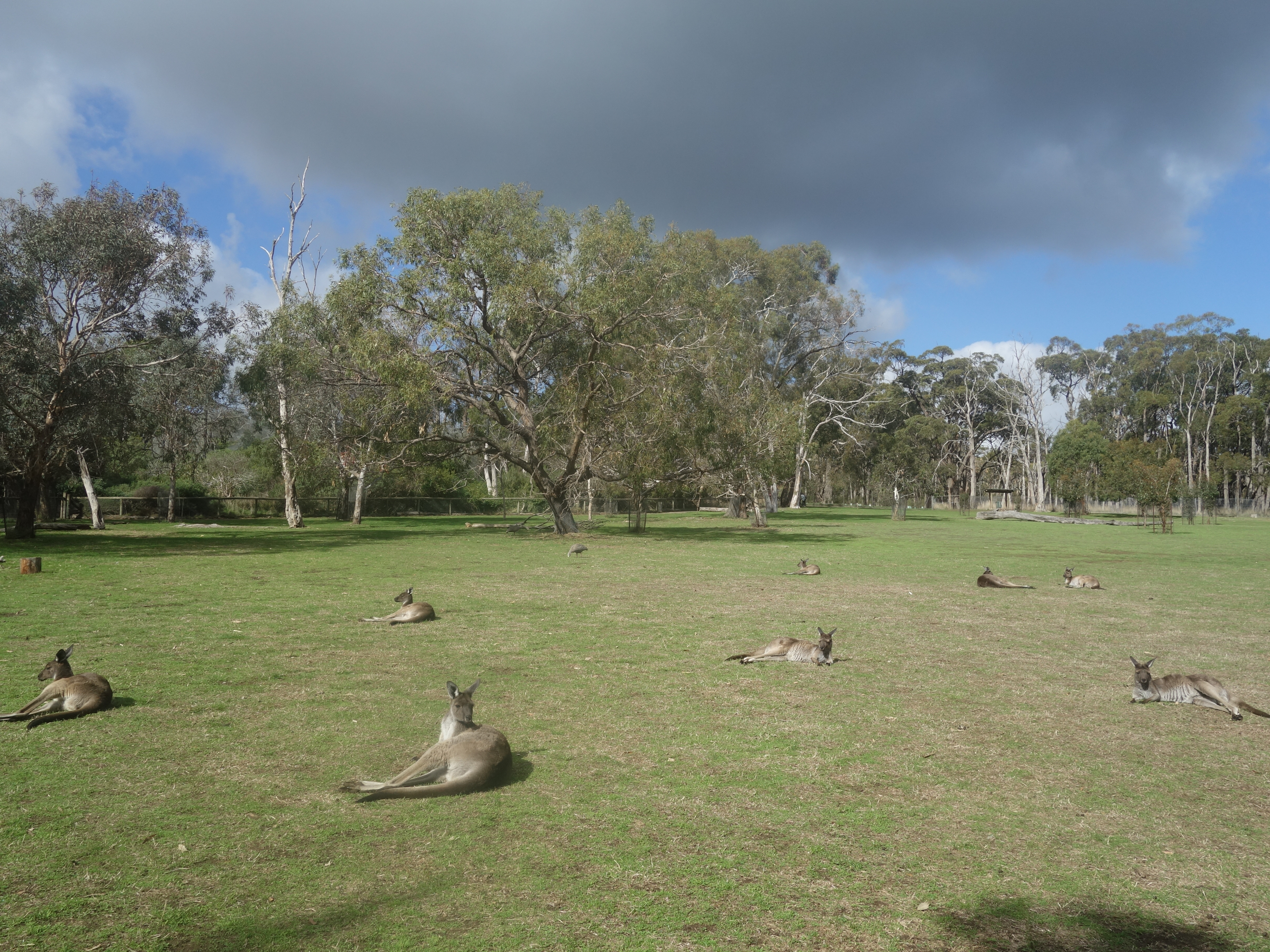 Grey tail kangaroos in WA